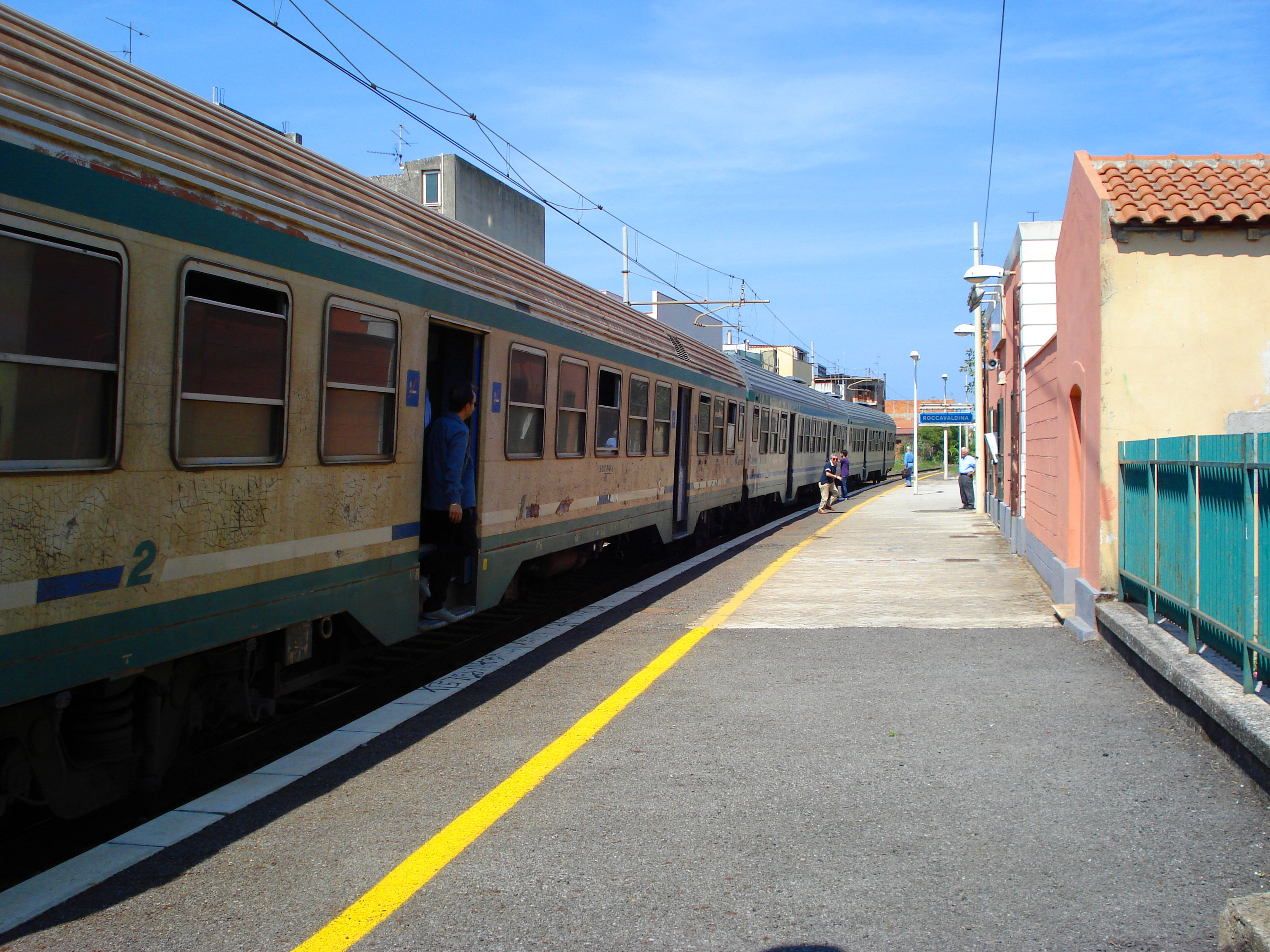 Regional train in Roccavaldina-Scala-Torregrotta train station, Sicily, Italy.